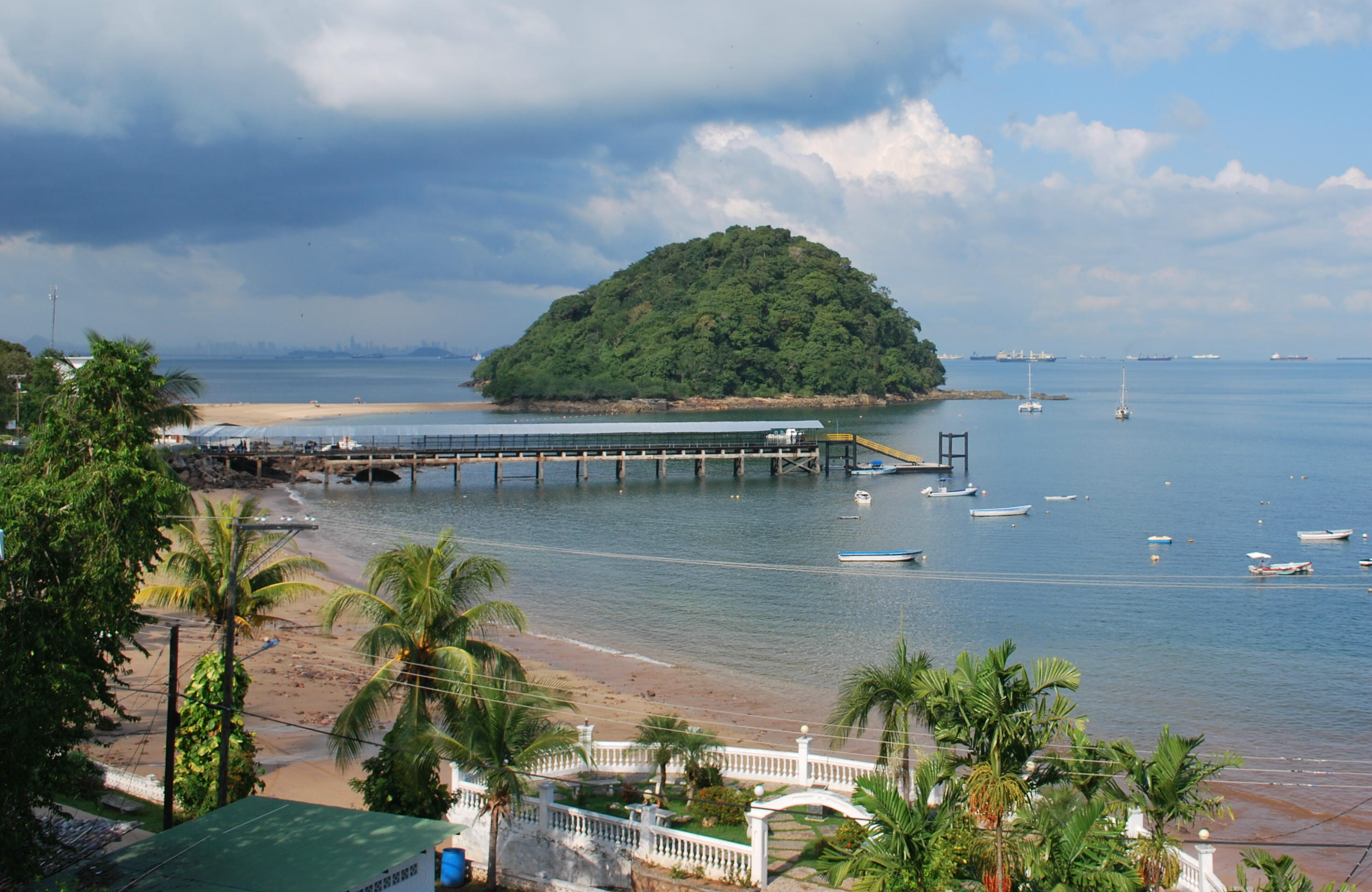 View of Isla Taboga, with Panama City in the background.